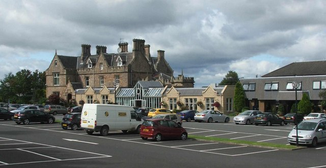 Inchyra Grange Hotel In common with many hotels in extensive grounds the owners have increased the facilities available by adding a function suite and a sports centre.